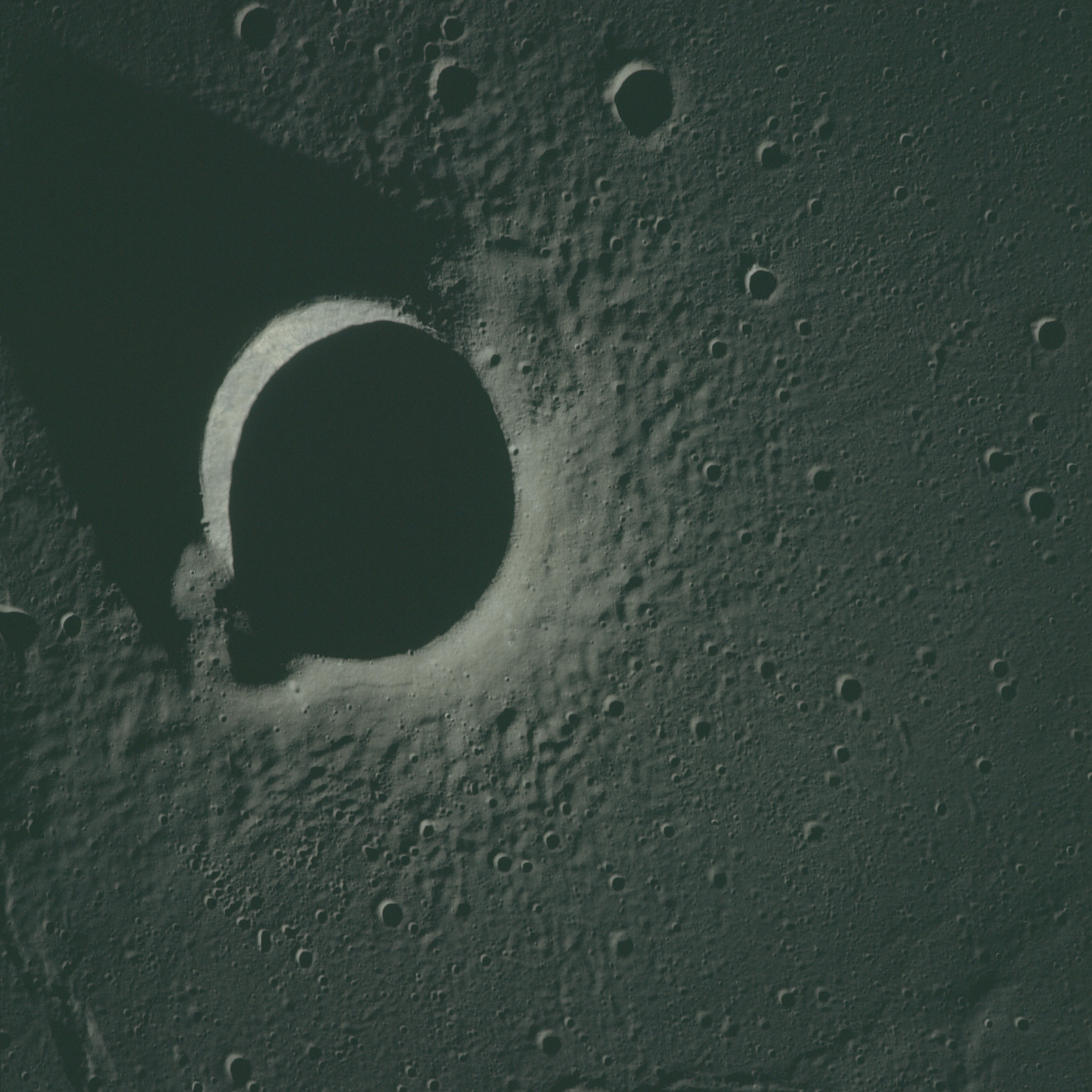 Oblique view of Norman crater, on the moon, at a very low sun angle, and facing northwest.